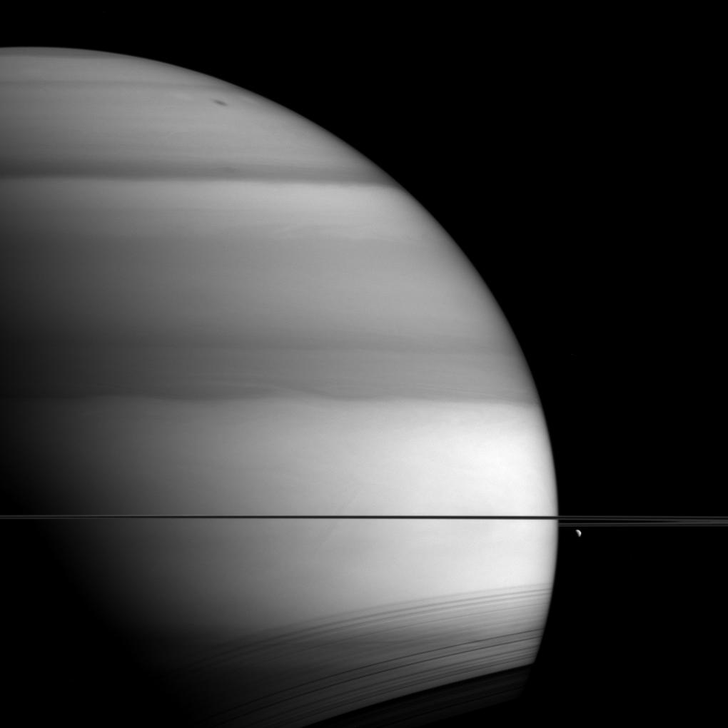 PIA18354: Methane Saturn September 6, 2015; released February 1, 2016. The soft, bright-and-dark bands displayed by Saturn in this view from NASA's Cassini spacecraft are the signature of methane in the planet's atmosphere. This image was taken in wavelengths of light that are absorbed by methane on Saturn. Dark areas are regions where light travels deeper into the atmosphere (passing through more methane) before reflecting and scattering off of clouds and then heading back out of the atmosphere. In such images, the deeper the light goes, the more of it gets absorbed by methane, and the darker that part of Saturn appears. The moon Dione (698 miles or 1,123 kilometers across) hangs below the rings at right. Shadows of the rings are also visible here, cast onto the planet's southern hemisphere, in an inverse view compared to early in Cassini's mission at Saturn (see PIA08168). This view looks toward the unilluminated side of the rings from about 0.3 degrees below the ringplane. The image was taken with the Cassini spacecraft wide-angle camera on Sept. 6, 2015, using a spectral filter which preferentially admits wavelengths of near-infrared light centered at 728 nanometers. The view was acquired at a distance of approximately 819,000 miles (1.32 million kilometers) from Saturn. Image scale is 49 miles (79 kilometers) per pixel. Dione has been brightened by a factor of two to enhance its visibility. The Cassini mission is a cooperative project of NASA, ESA (the European Space Agency) and the Italian Space Agency. The Jet Propulsion Laboratory, a division of the California Institute of Technology in Pasadena, manages the mission for NASA's Science Mission Directorate, Washington. The Cassini orbiter and its two onboard cameras were designed, developed and assembled at JPL. The imaging operations center is based at the Space Science Institute in Boulder, Colorado. For more information about the Cassini-Huygens mission visit and The Cassini imaging team homepage is at